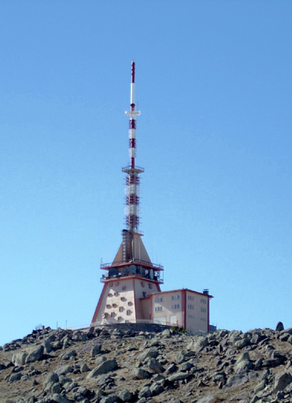 TV station